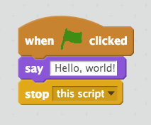 Script for Hello, World! in Scratch